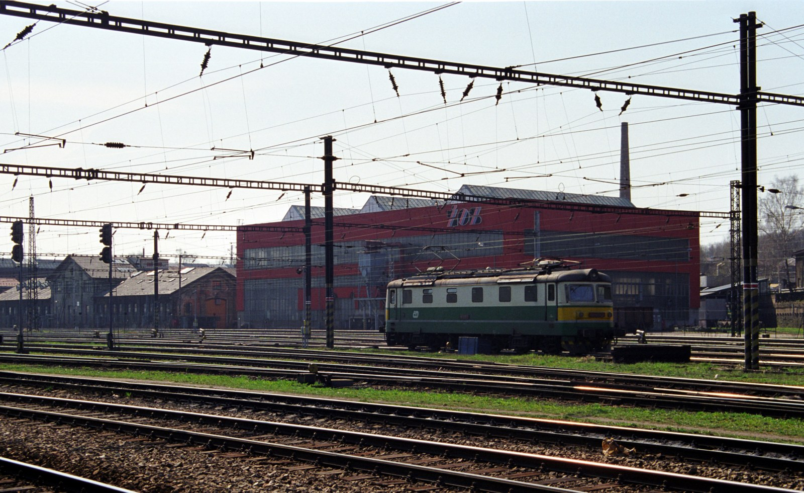 Railway station in Česká Třebová.